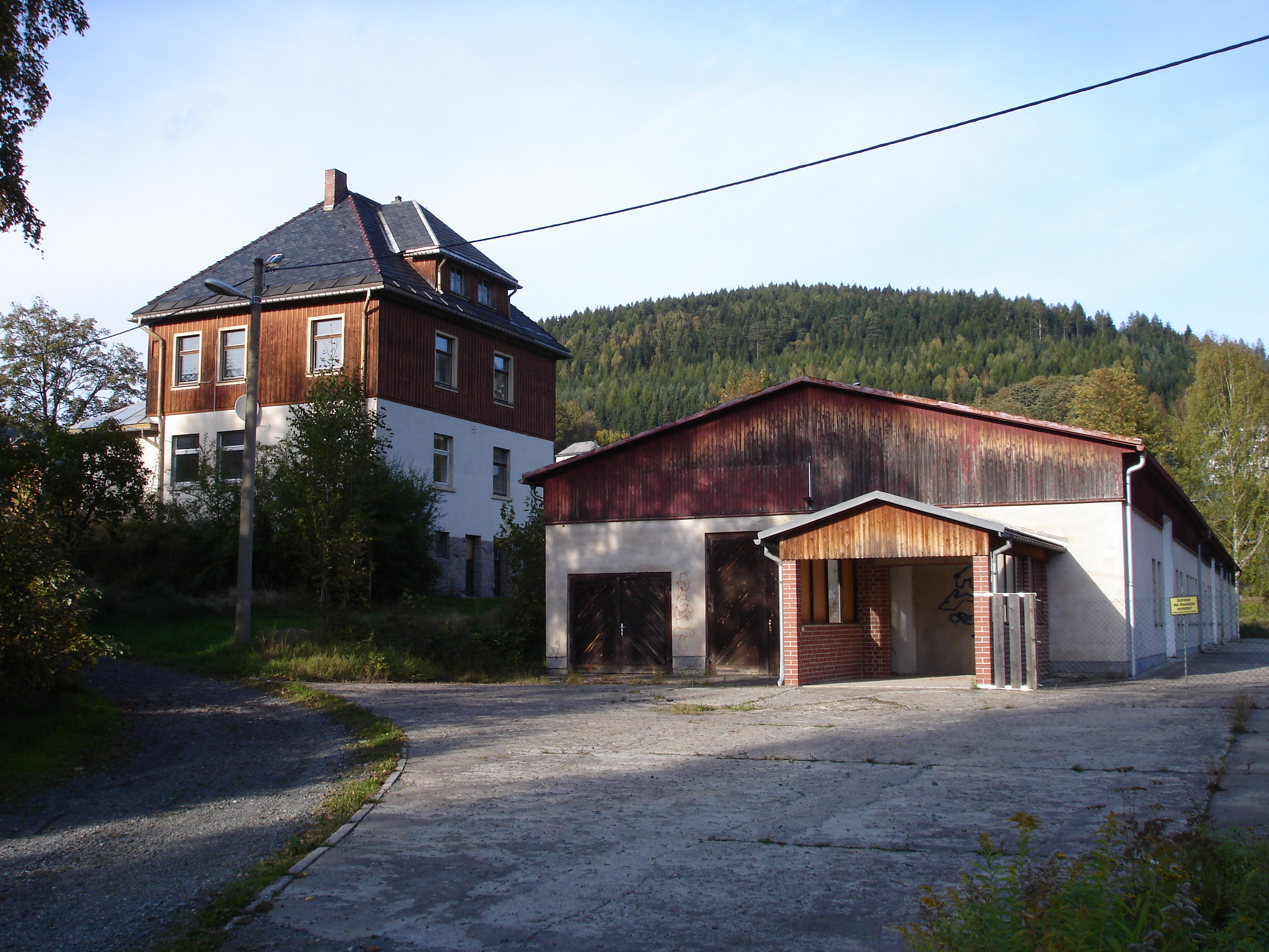 station Sachsenberg-Georgenthal, Saxony, Germany